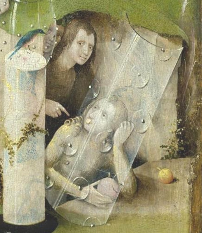 Detail of "The Garden of Earthly Delights" by Hieronymus Bosch, from center panel "garden of delight", lower right corner.